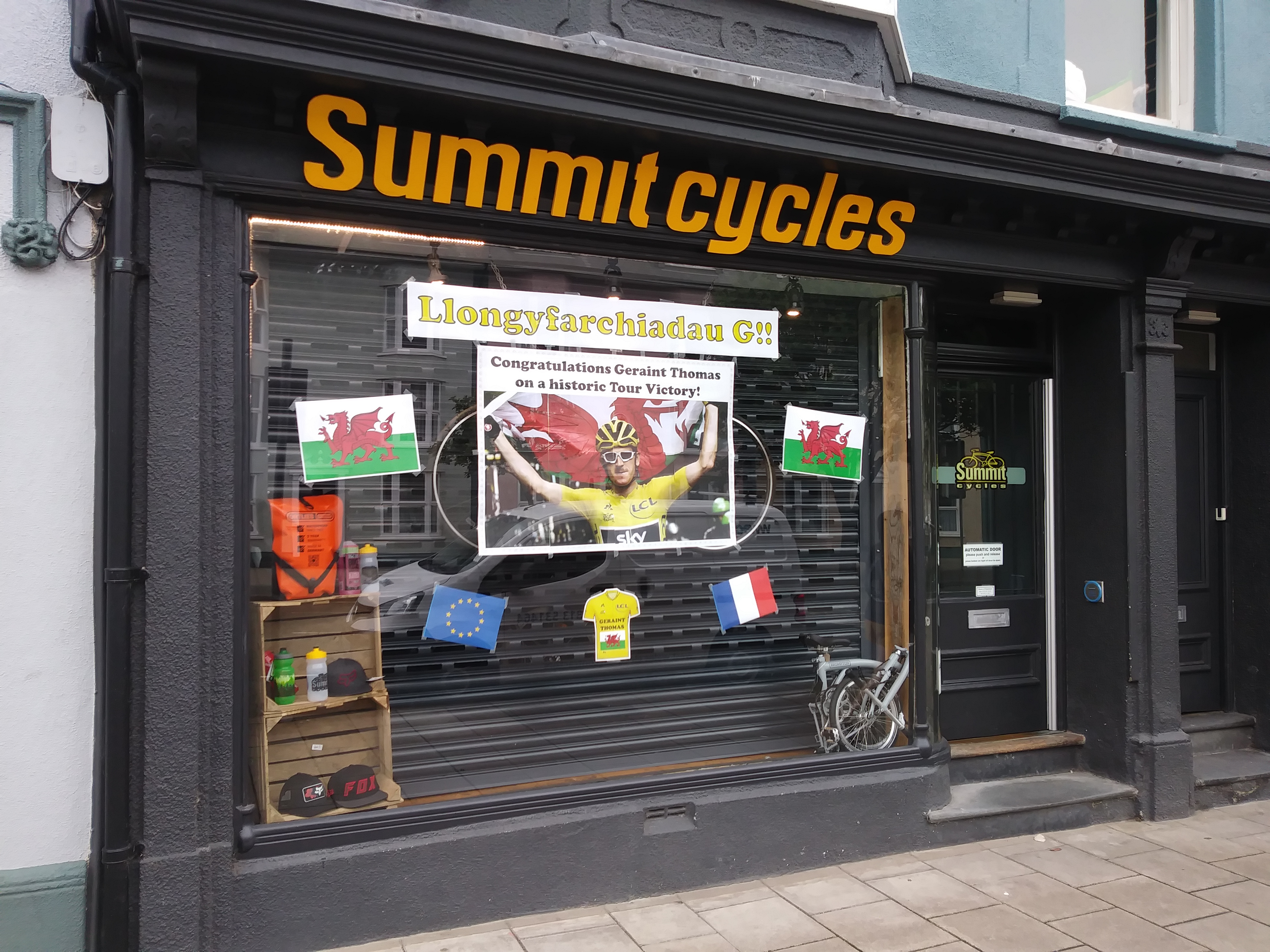 Summit Cycles, Aberystwyth - Geraint Thomas, Tour de France winner 2018